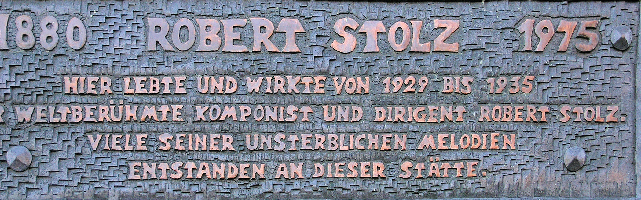 Memorial plaque, Robert Stolz, Paulsborner Straße 81, Berlin-Wilmersdorf, Germany Koordinate:52°29′40.6″N 13°18′2.9″E / 52.494611°N 13.300806°E